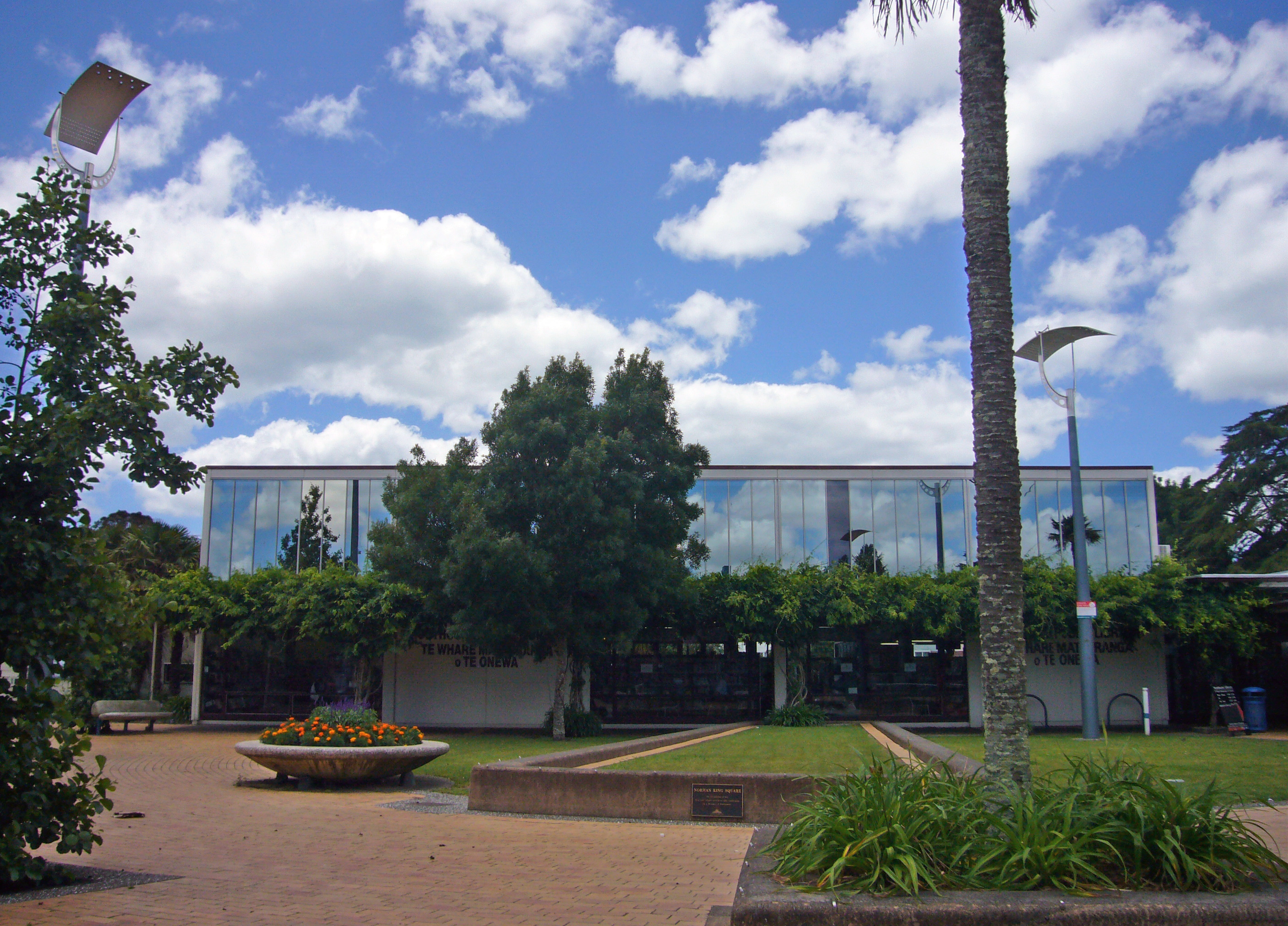 Northcote Public Library, North Shore City, New Zealand.